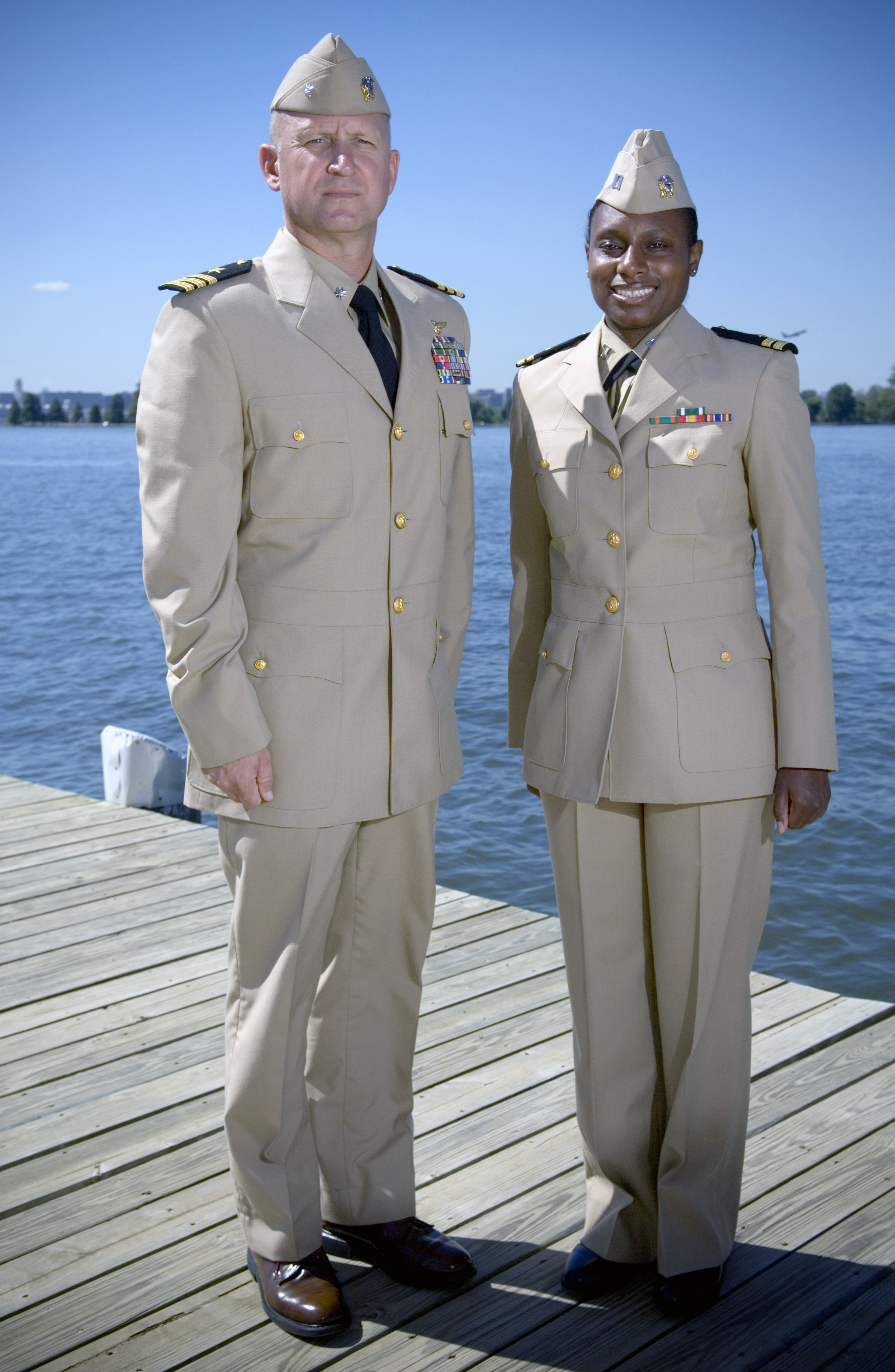 WASHINGTON (Sept. 19, 2007) - Two officers show off the prototype uniform for service dress khaki, a throwback to the traditional WWII style uniform. It allows for chiefs and officers to shift from service khaki to service dress khaki by adding a black tie and jacket. U.S. Navy photo by Mass Communication Specialist 1st Class Brien Aho (RELEASED)